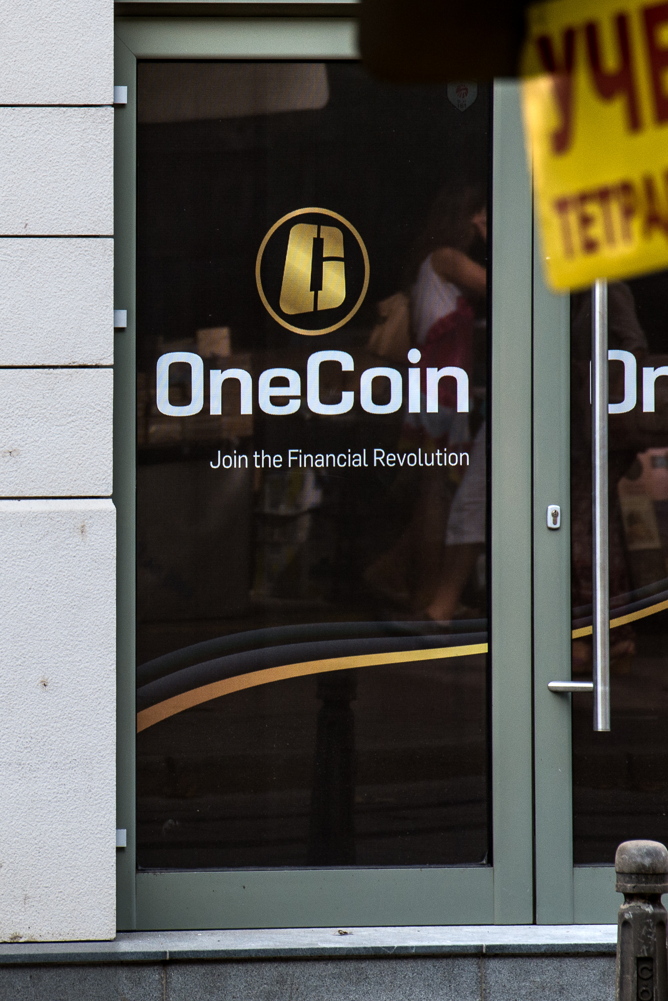 OneCoin logo on the door of their office in Sofia, Bulgaria